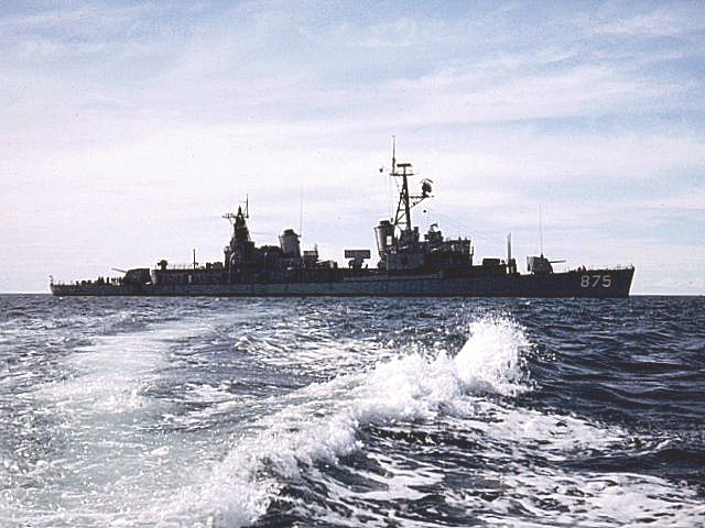 The U.S. Navy destroyer USS Henry W. Tucker (DD-875) at anchor at An Thoi, Vietnam.